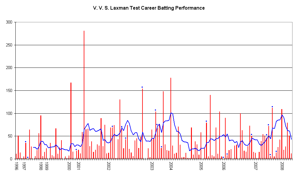 This graph details the Test Match performance of V. V. S. Laxman. The red bars indicate the player's test match innings, while the blue line shows the average of the ten most recent innings at that point. Note that this average cannot be calculated for the first nine innings. The blue dots indicate innings in which Laxman finished not-out. This graph was generated with Microsoft Excel 2002, using data from Cricinfo [1] and Howstat [2]. The information in this chart is current as of 2 February, 2008.